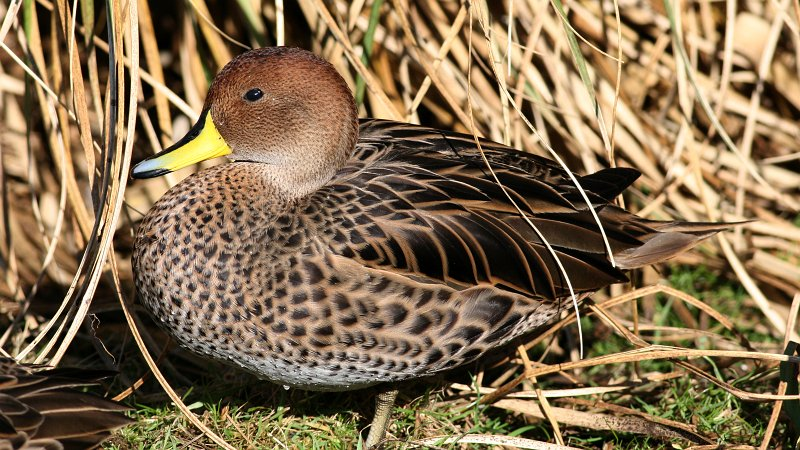 Brown pintail (Anas georgica spinicauda)